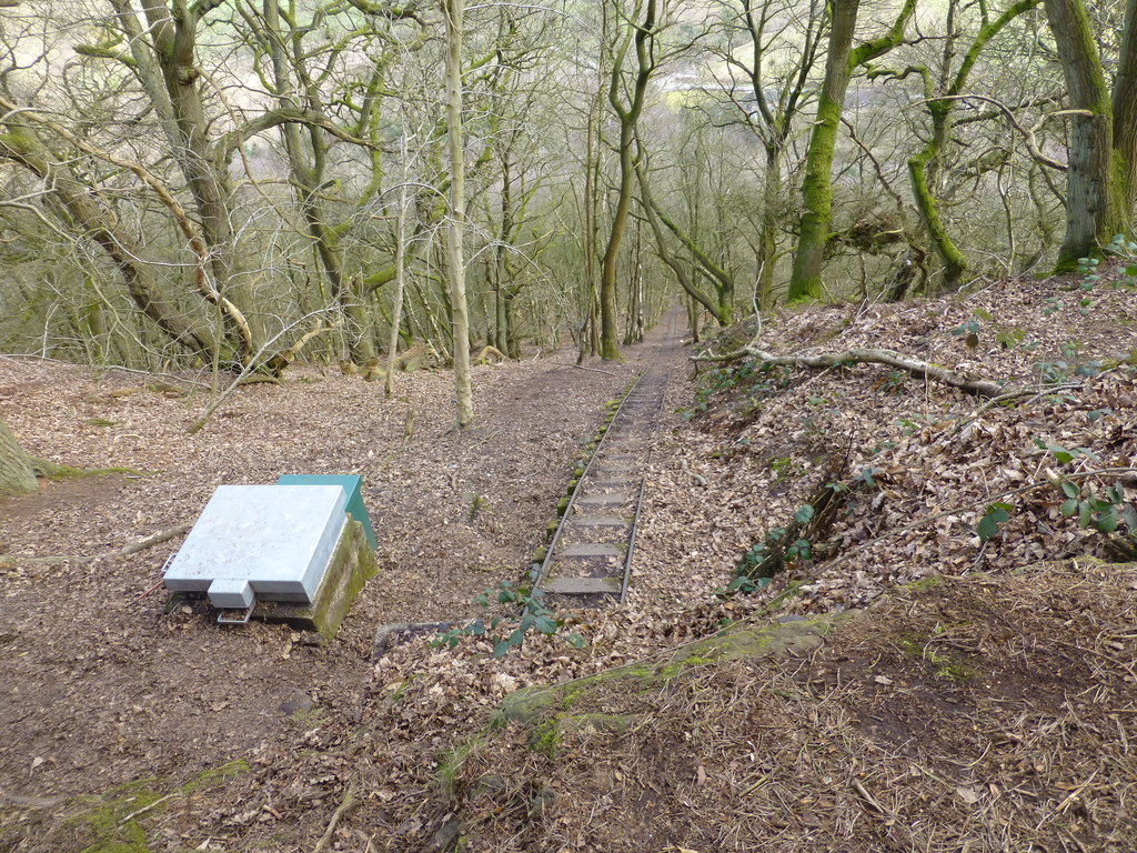 The rail incline on Bulkeley Hill